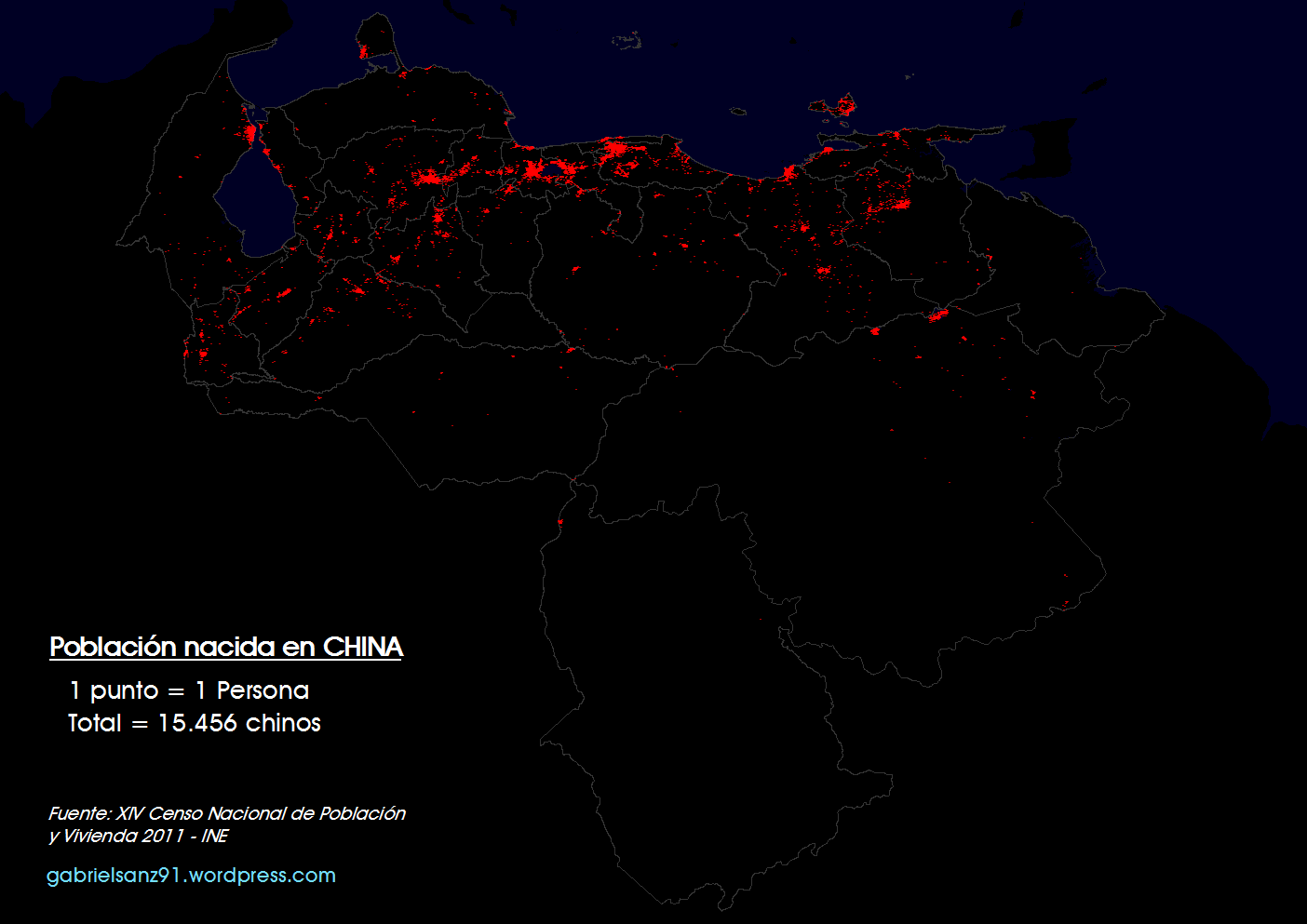 Map of Venezuela, showing by dots the distribution of residents born in China, according the National Census (2011). Each dot is one Chinese-born resident